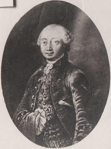 Godske Hans von Krogh (1726-1808), Danish courtier and district officer